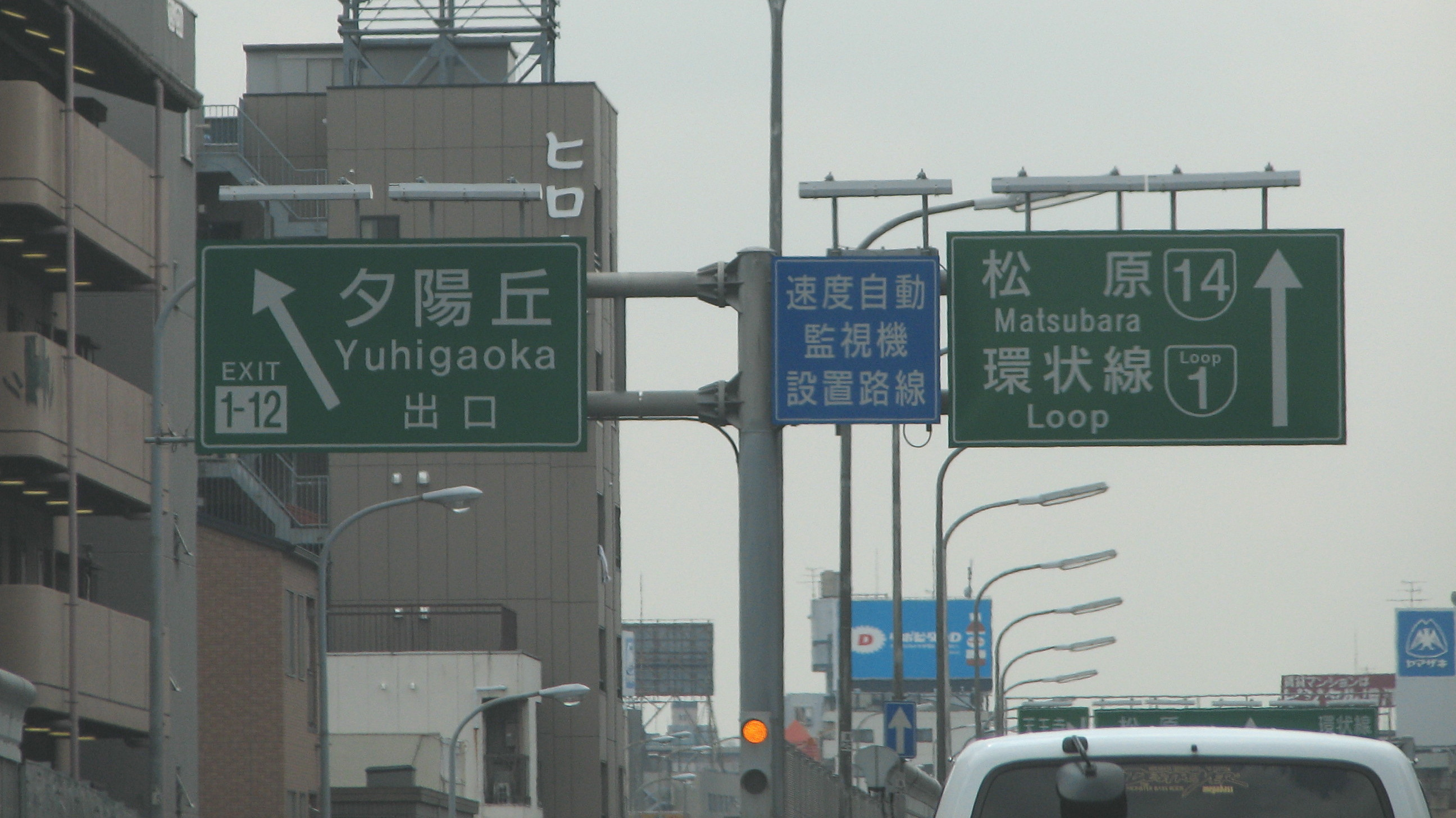 Hanshin Expressway Yūhigaoka IC